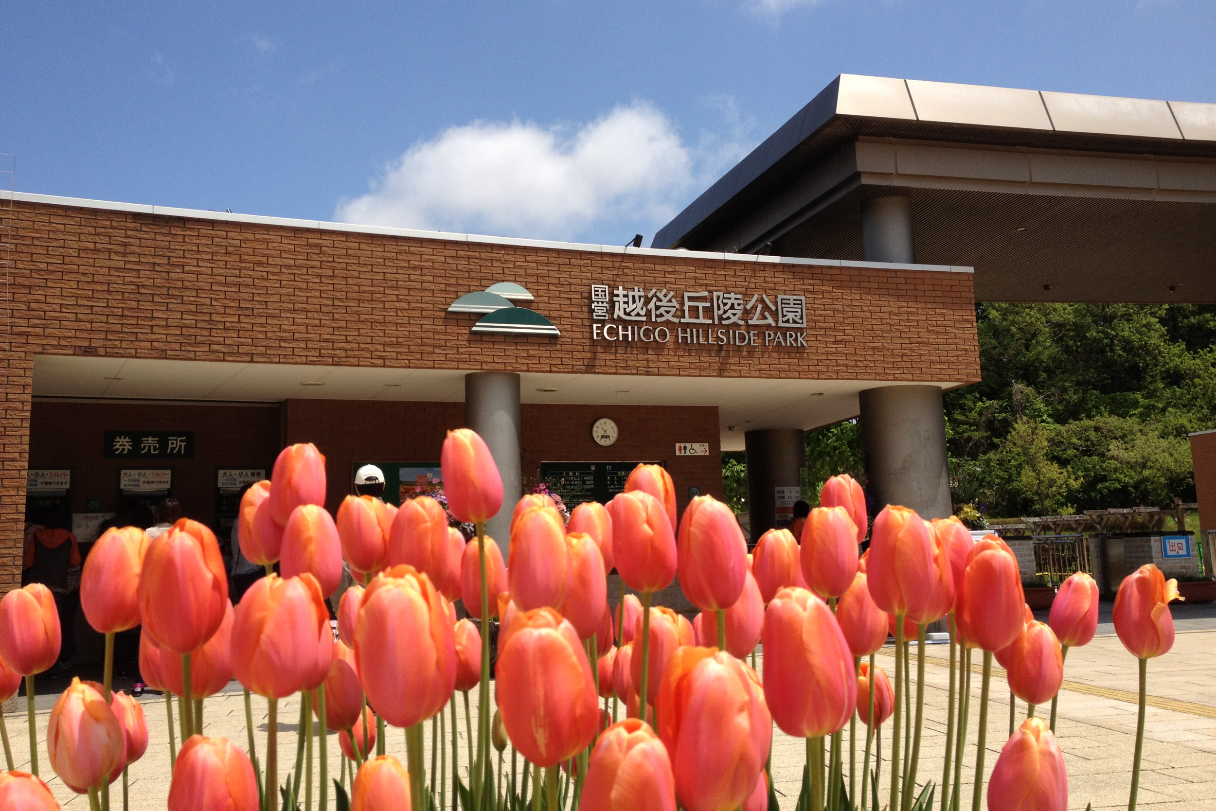 Main gate of Echigo Hillside National Government Park, Nagaoka, Niigata Prefecture, Japan